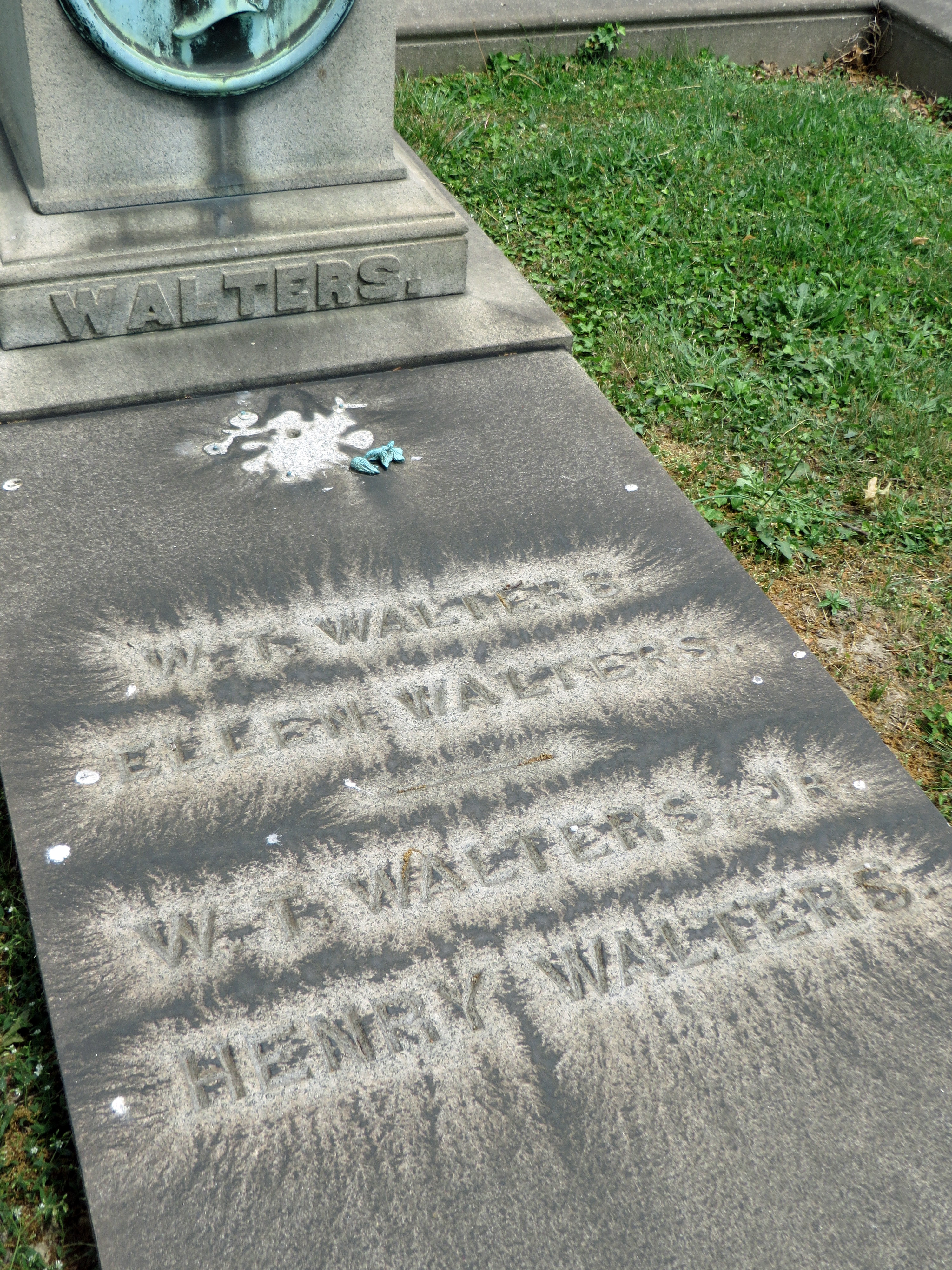 Gravestone of William Thompson Walters, Ellen Harper Walters, Henry Walters, William Thompson Walters, Jr., Betsey Anthony, and Harriette M. Clark.